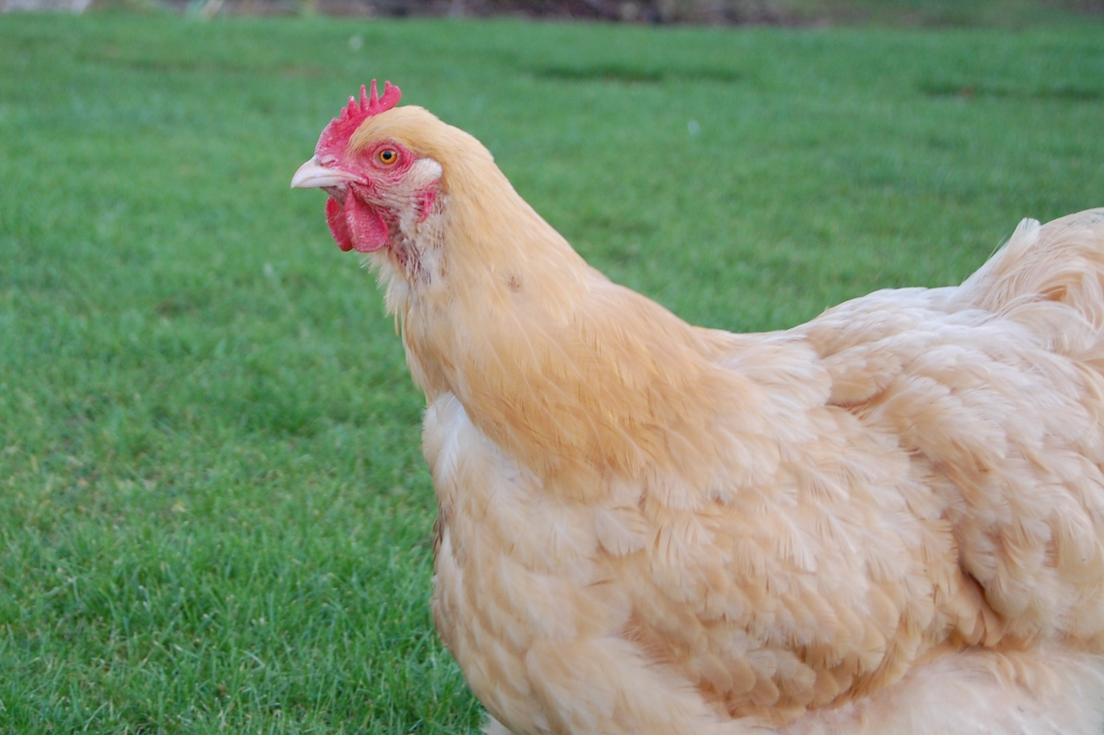 My Buff Orpington(hen)